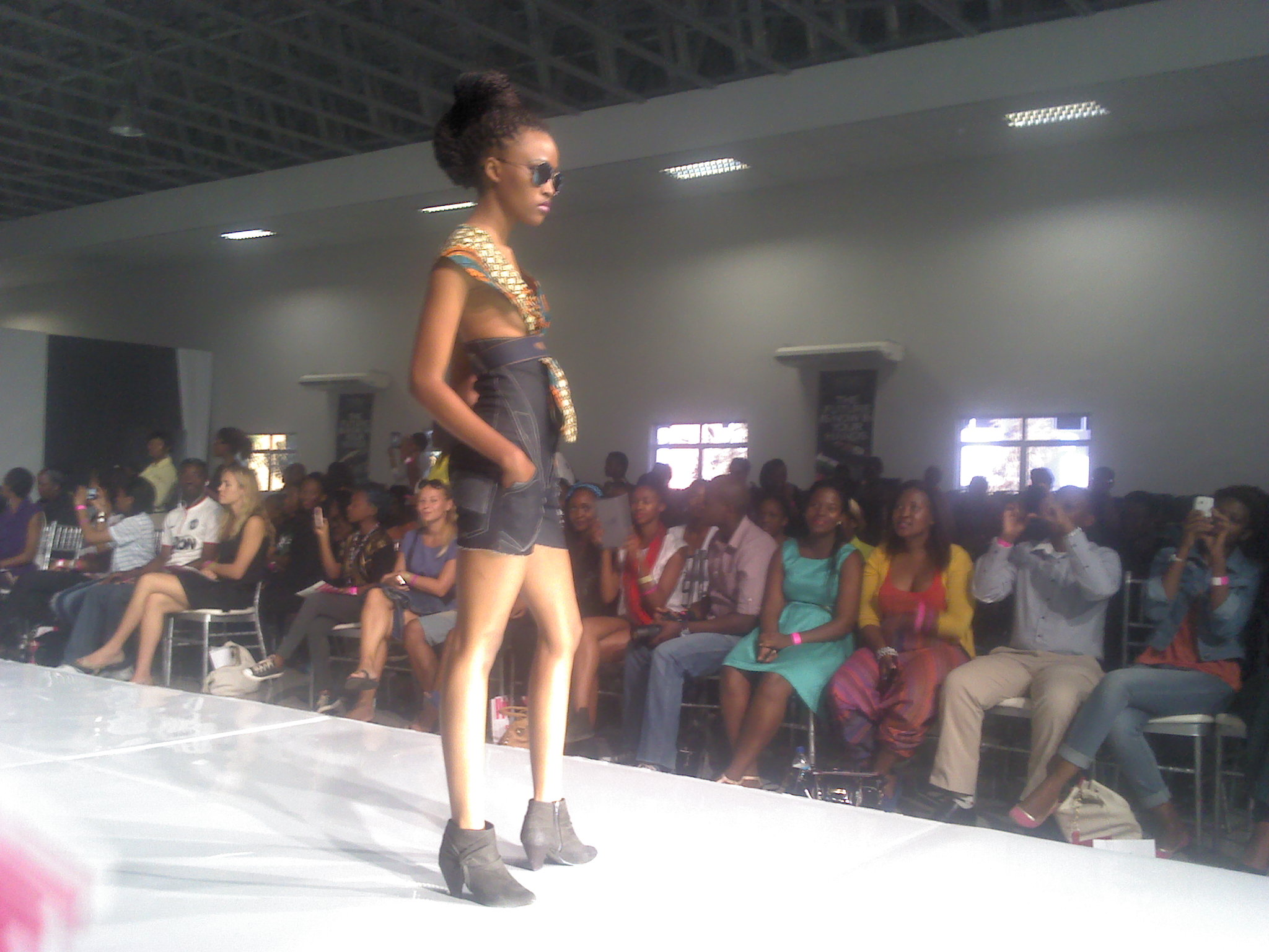 Sky Girls BW fashion show in Gaborone